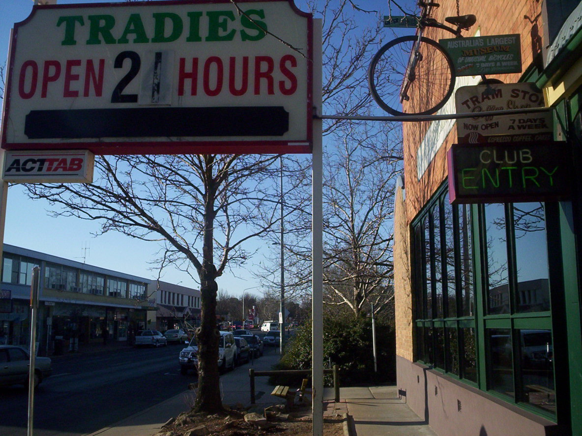 Category:Images of Canberra Outside the tradies club in Dickson ACT. I took the photo, licencing under GFDL